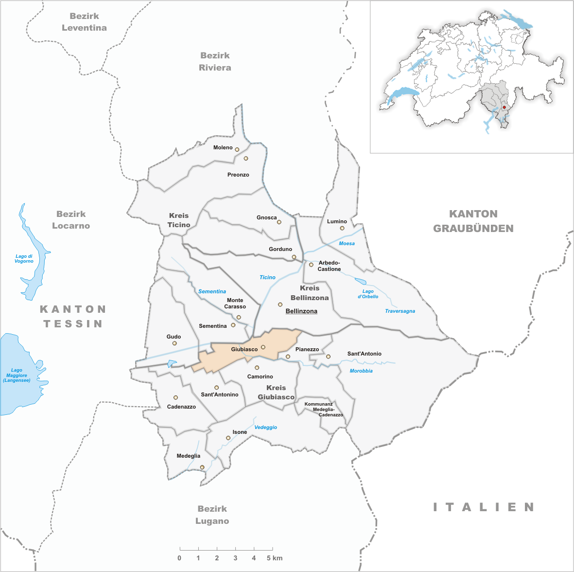 Municipality Giubiasco